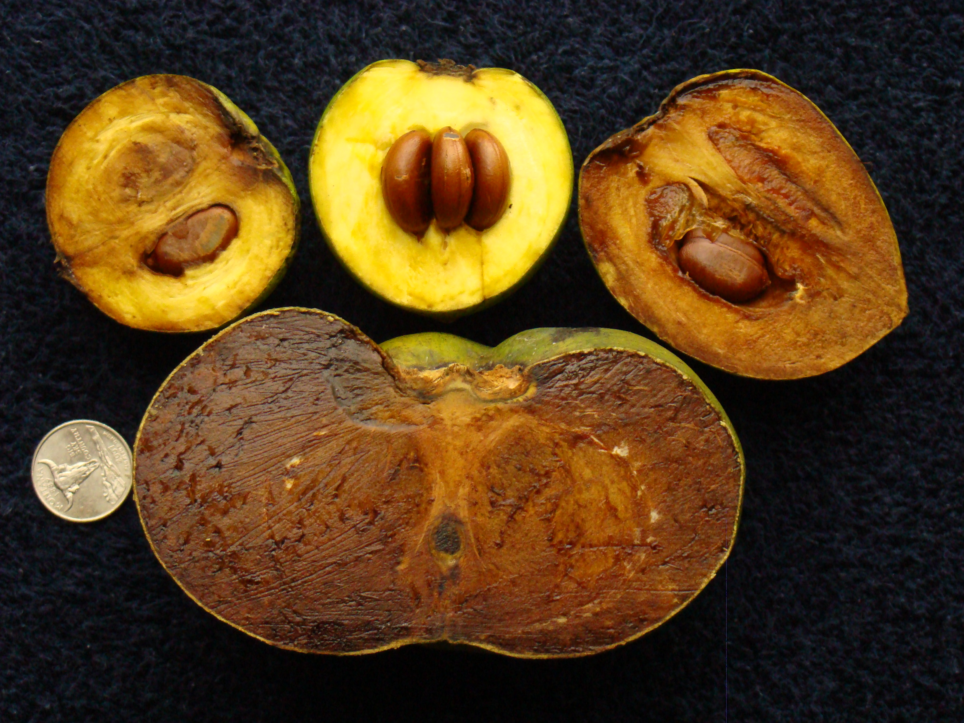 The vertically cut half of a ripe, jumbo and seedless Black Sapote (Diospyros digyna / Ebenaceae) from a seedling tree in Palm Bay, Florida, along with the same from three common Black Sapotes are compared with an 1-inch (2.54-cm) diameter coin.